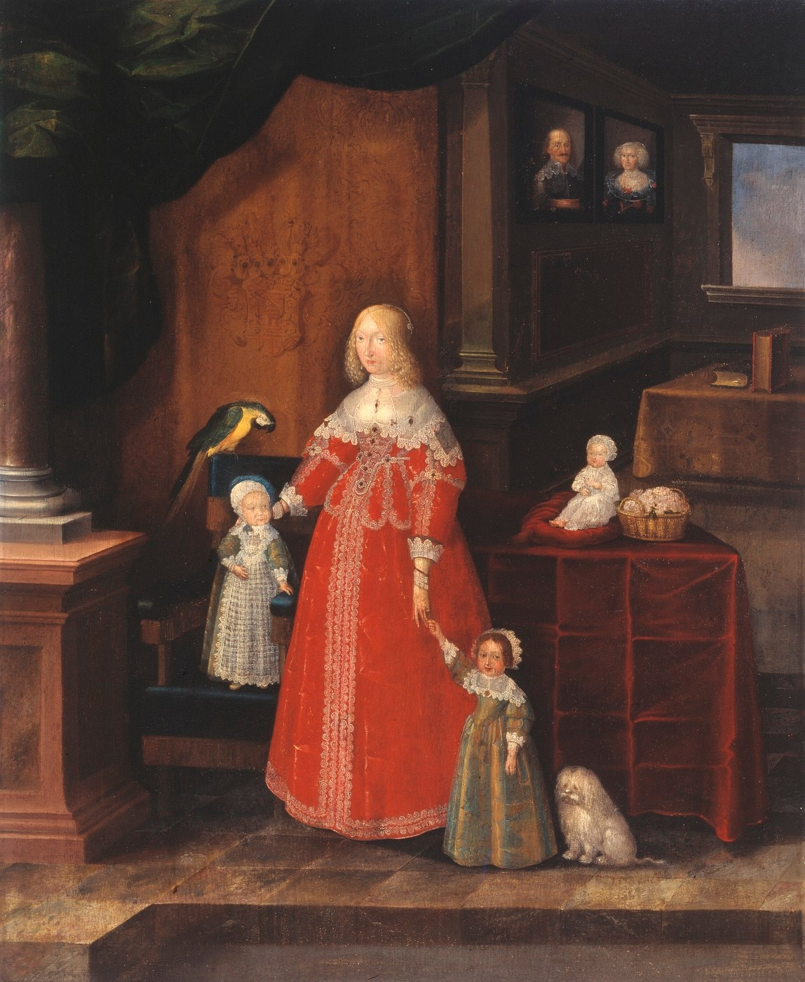 Eleonore Dorothea of Anhalt-Dessau and sons